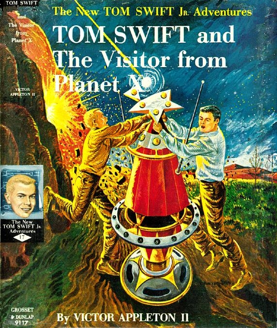 Tom Swift and The Visitor from Planet X — dust jacket — Project Gutenberg eText 17985